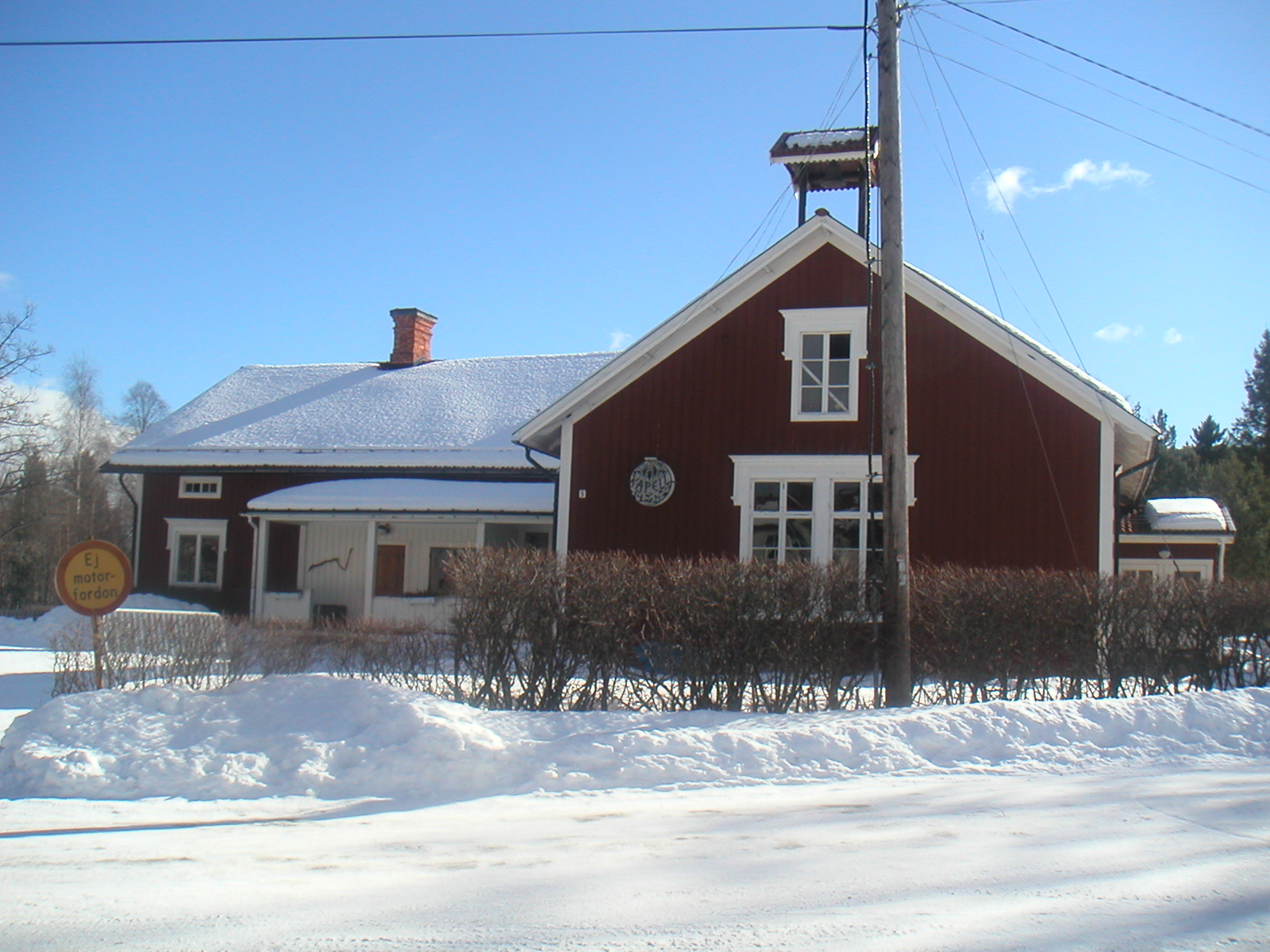 Saxdalen Chapel, Dalecarlia, Sweden